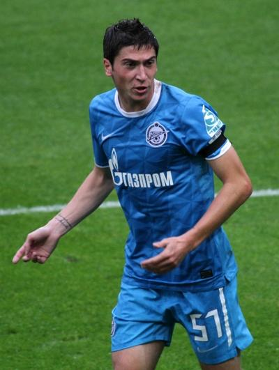 Aleksei Ionov in Kuban Krasnodar 2012.